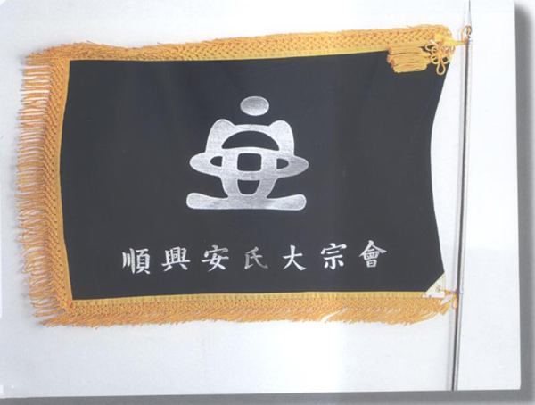 순흥안씨 대종회기